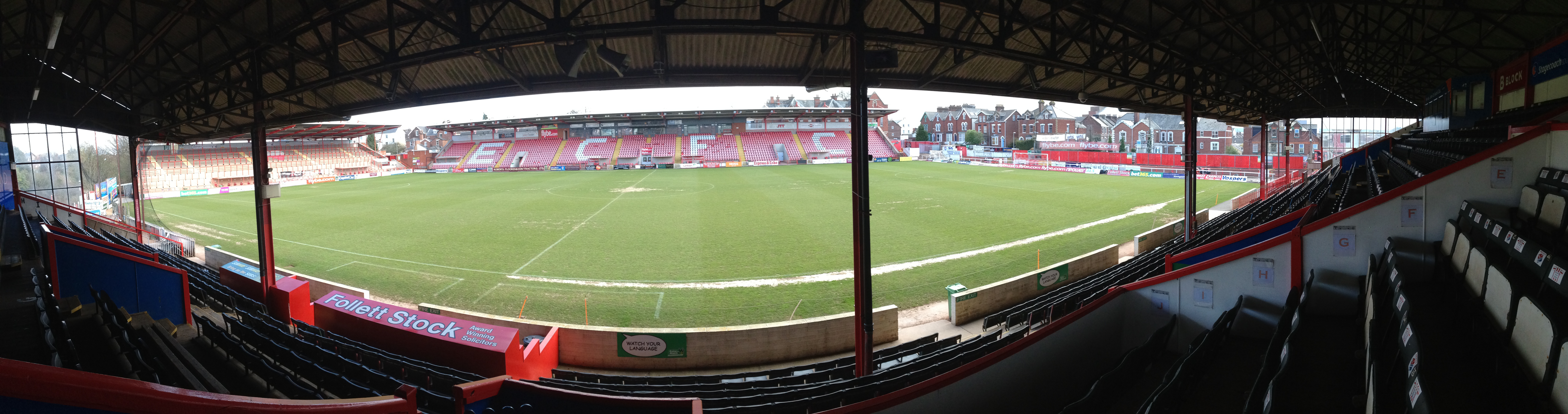 Panoramic view of St James Park, Exeter from the Old Grandstand